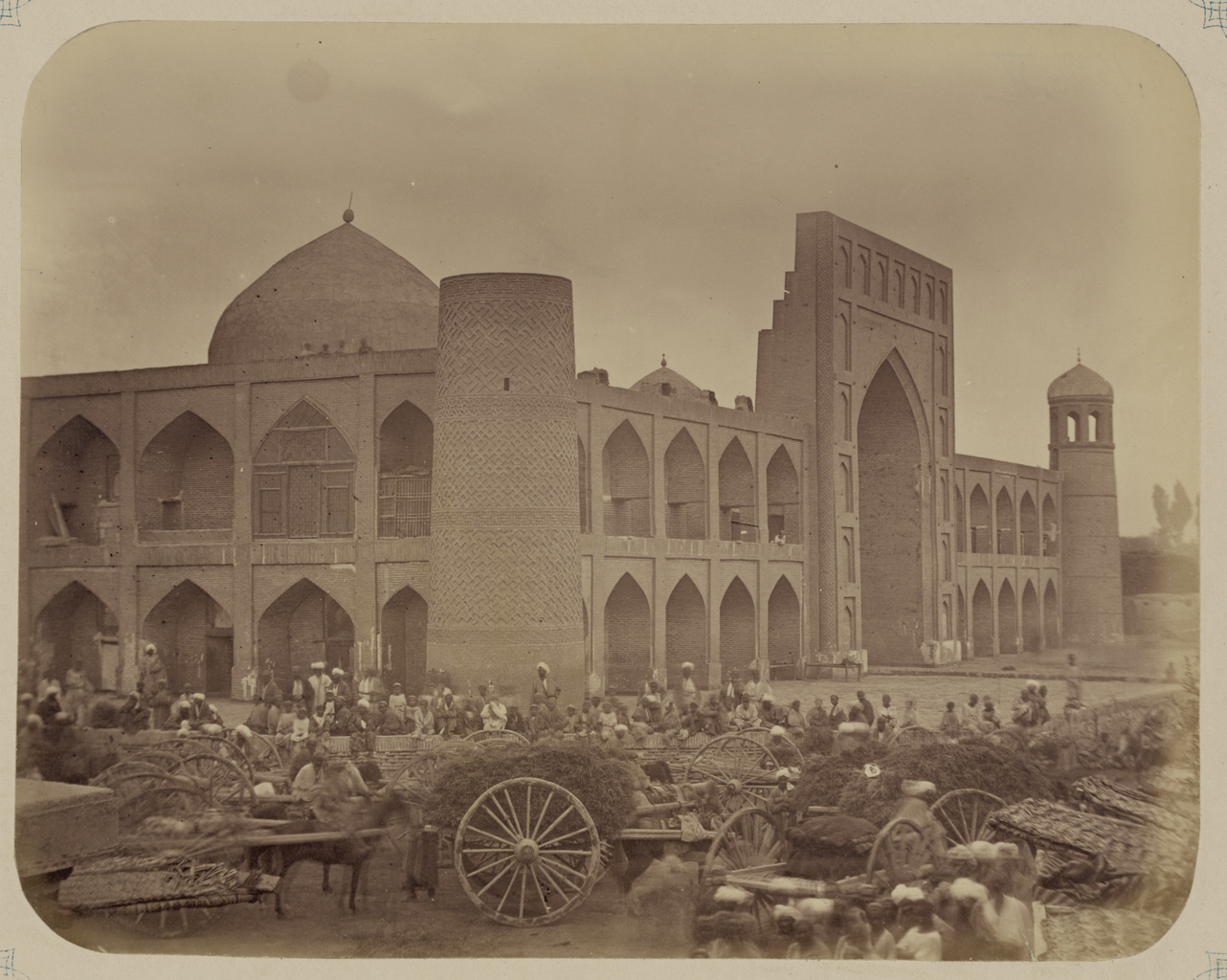 This photograph is from the ethnographical part of Turkestan Album, a comprehensive visual survey of Central Asia undertaken after imperial Russia assumed control of the region in the 1860s. Commissioned by General Konstantin Petrovich von Kaufman (1818–82), the first governor-general of Russian Turkestan, the album is in four parts spanning six volumes: “Archaeological Part” (two volumes); “Ethnographic Part” (two volumes); “Trades Part” (one volume); and “Historical Part” (one volume). The principal compiler was Russian Orientalist Aleksandr L. Kun, who was assisted by Nikolai V. Bogaevskii. The album contains some 1,200 photographs, along with architectural plans, watercolor drawings, and maps. The “Ethnographic Part” includes 491 individual photographs on 163 plates. The photographs show individuals representing the different peoples of the region (Plates 1–33); daily life and rituals (Plates 34–91); and views of villages and cities, street vendors, and commercial activities (Plates 92–163). Ethnographic photographs; Islamic architecture; Madrasahs; Photographic surveys; Plazas; Turkic peoples; Wagons